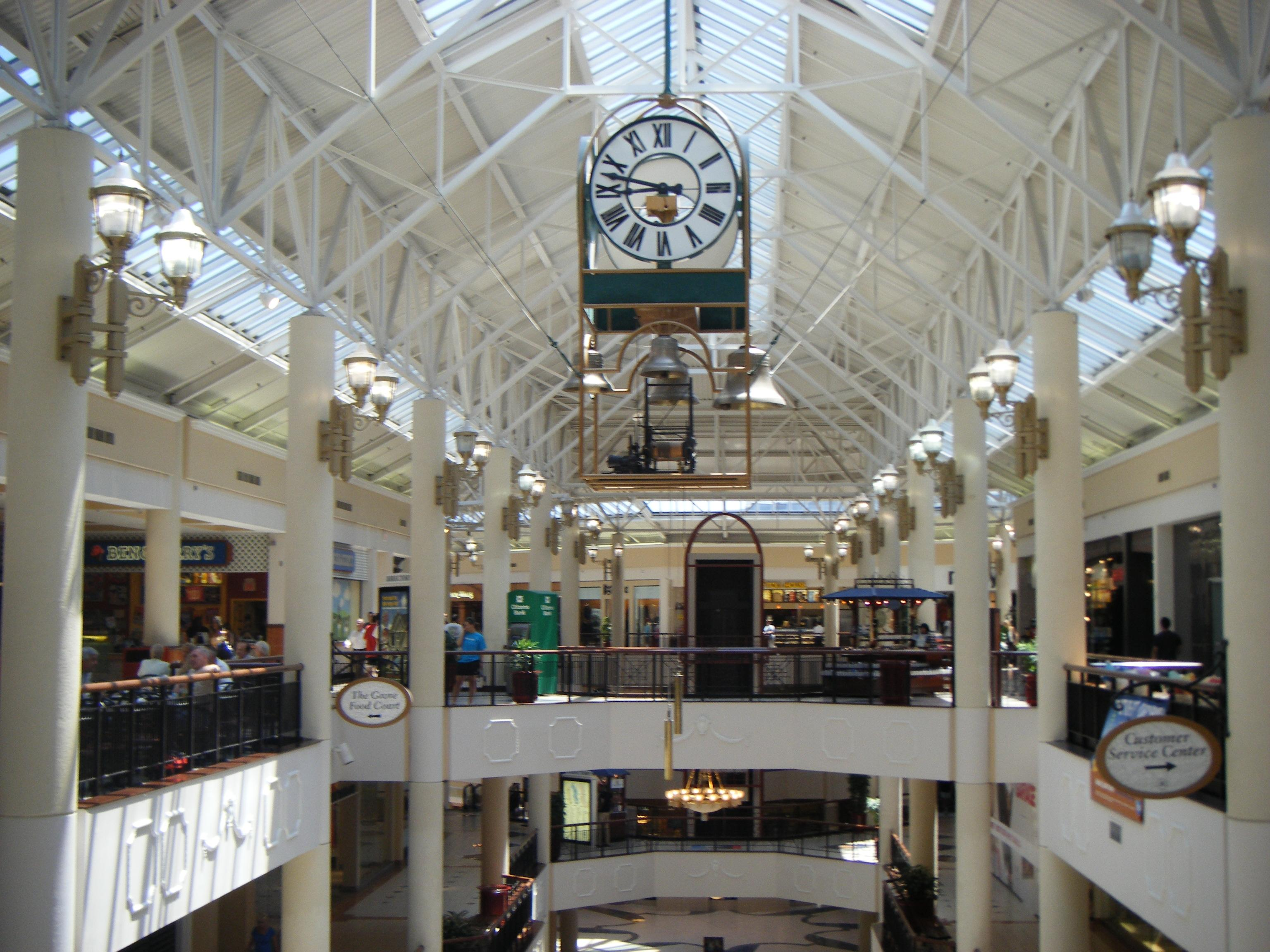 A view of the Willow Grove Park Mall in Willow Grove, Pennsylvania from the third floor near The Grove food court